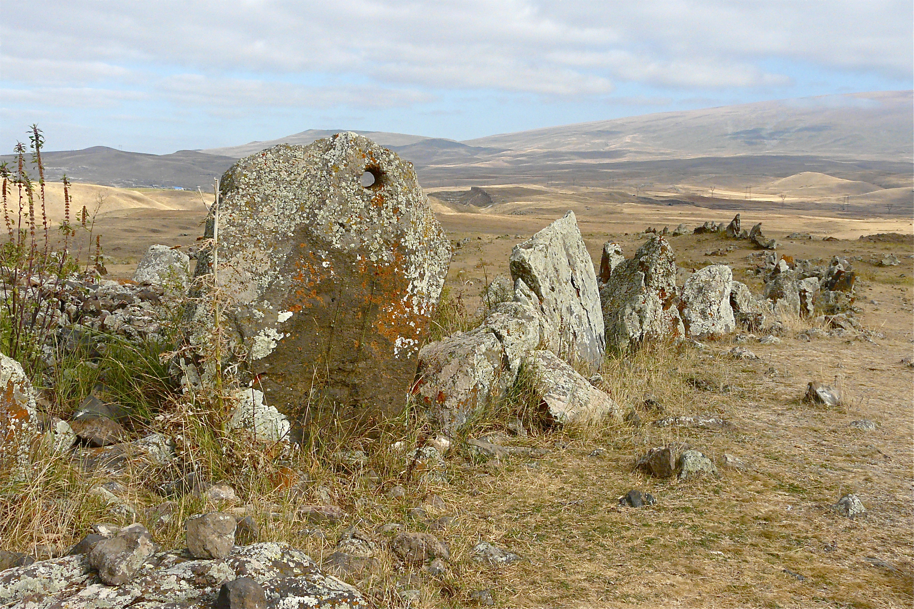 One of the stones that make up Zorats Karer. The stone in the foreground features a hole in the top half. It has been speculated by archaeoastrologists that the holes may have been used for astronomical observation however the holes may not be prehistoric in origin as they are relatively unweathered.